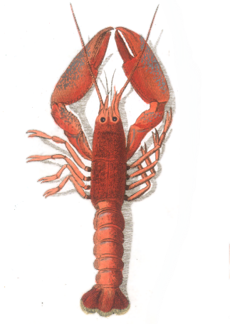 Illustration of "Cancer capensis" (= Homarinus capensis) from J. F. W. Herbst's Versuch einer Naturgeschichte der Krabben und Krebse